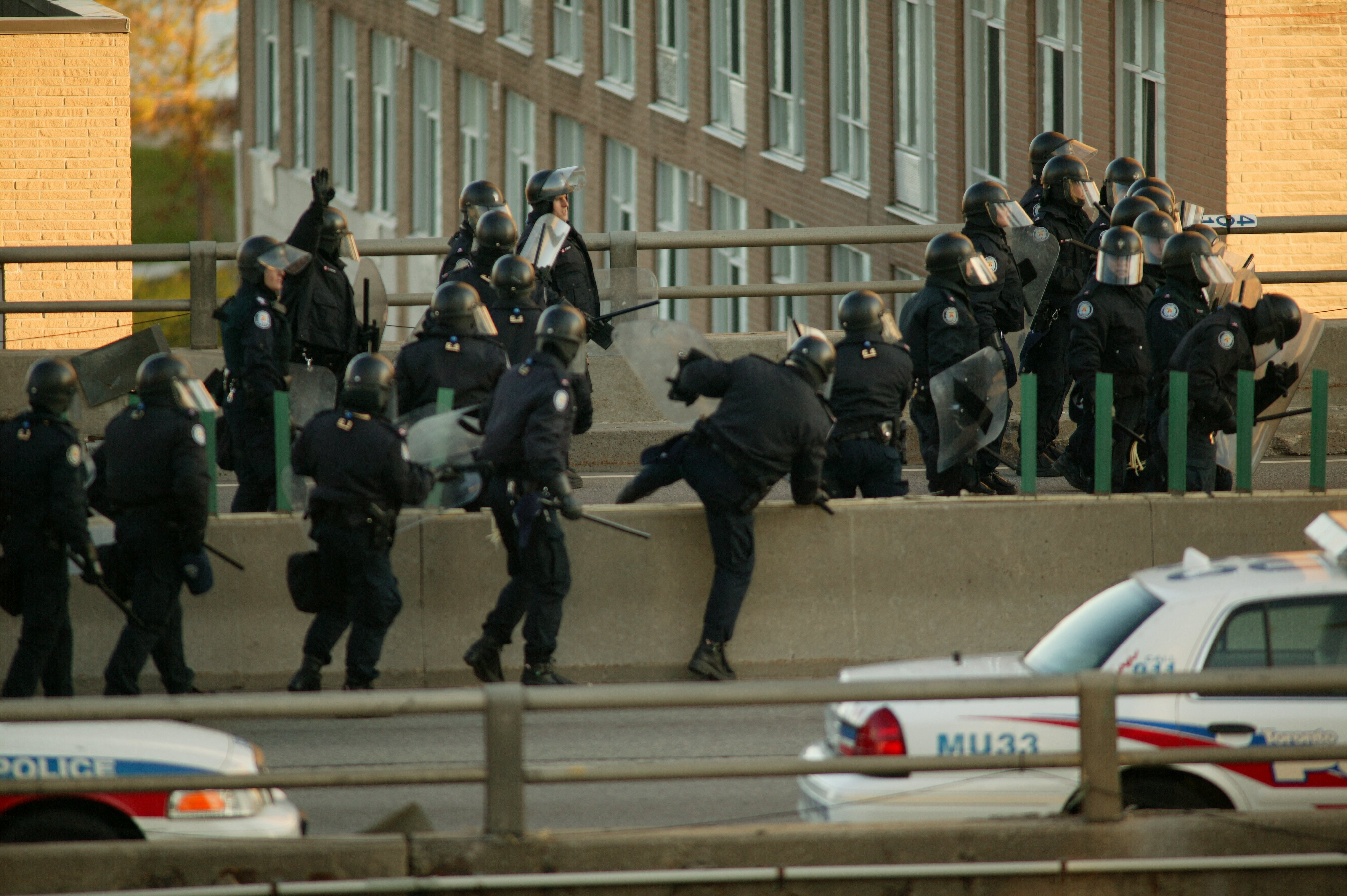 Tamil Protest blocks Gardiner Expressway